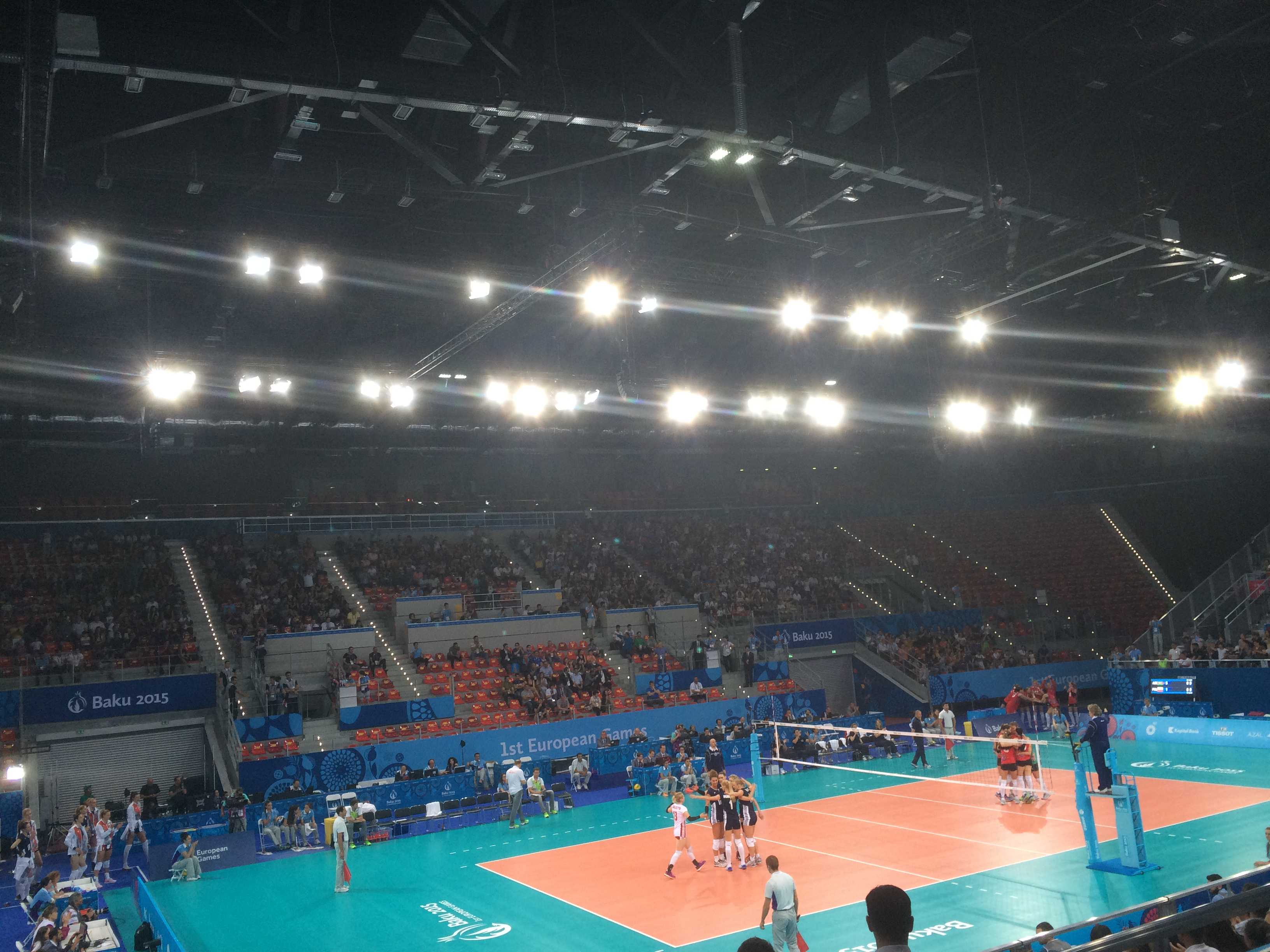 Azerbaijan - Poland voleyball game, Baku 2015 European Games